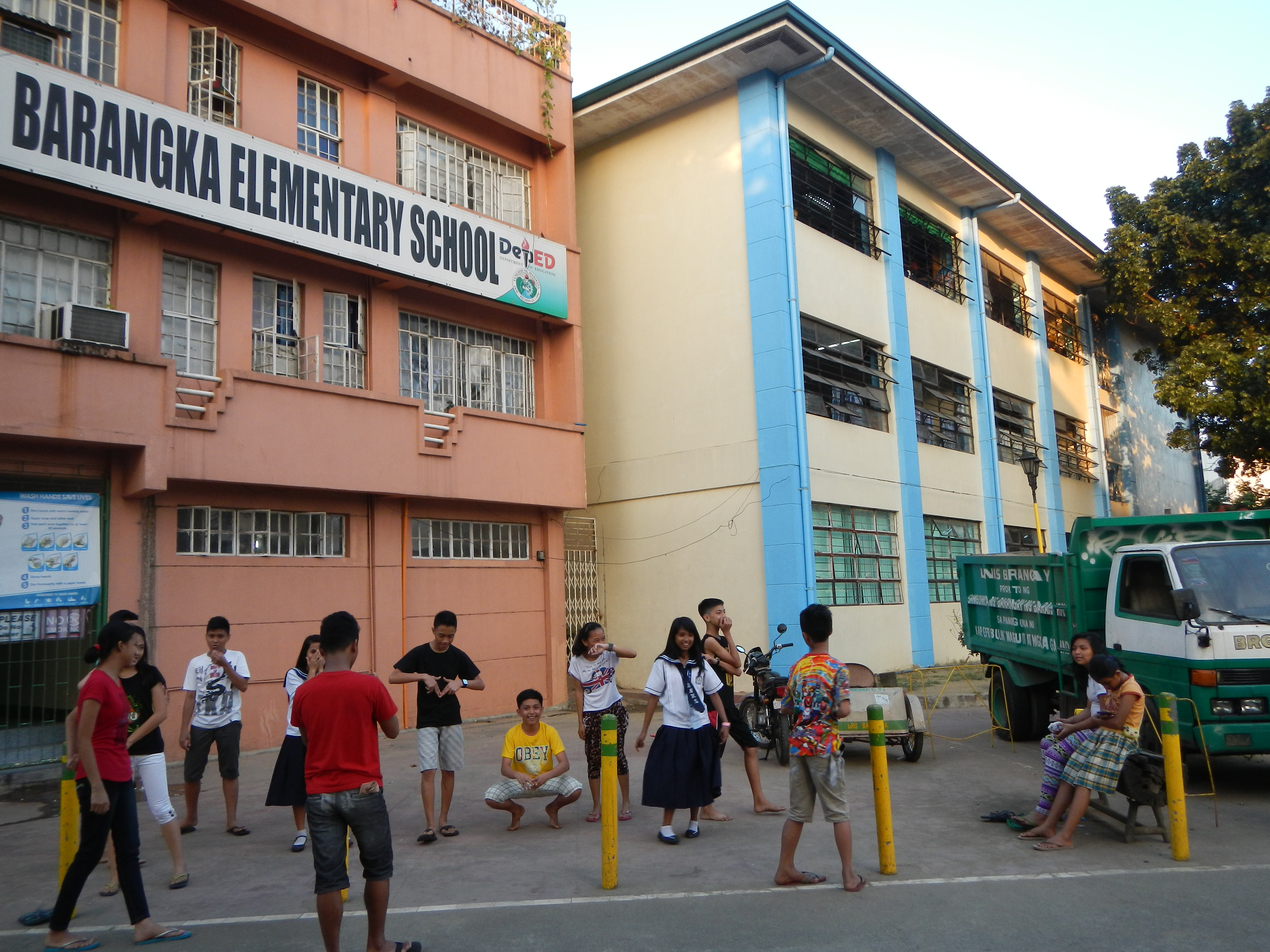 Upload Wizard photos of Marikina City [1] - )Barangay Barangaka, Marikina City, Hall [2] Complex, School and Centre of Commerce and Riverbank Center Mall[3]